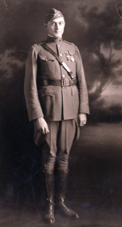 World War I officer and United States District Judge Alfred Dickinson Barksdale